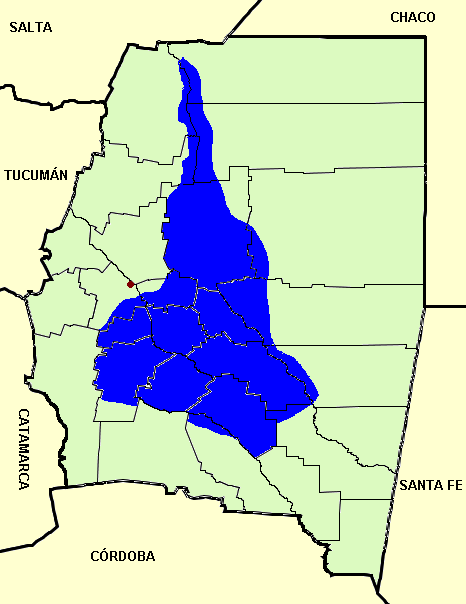 Approximate distribution of speakers of Santiago del Estero Quichua